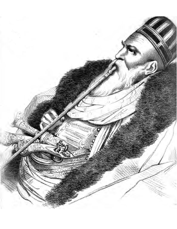 Drawing of Ali Pacha on the frontispice of the book